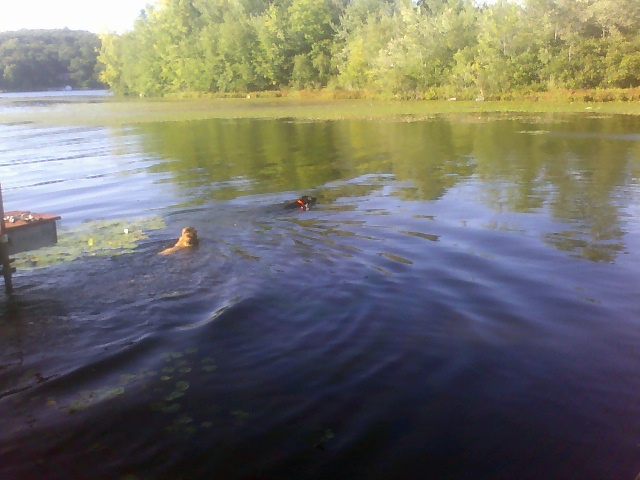 Photo: Lise Visser, 2007. Lake Oscawana is the serene setting for boating, swimming, fresh water fishing and, as seen here, dogs swimming in after a stick. The lake is surrounded by both summer and year round residents who enjoy this gem of the Putnam Valley region.